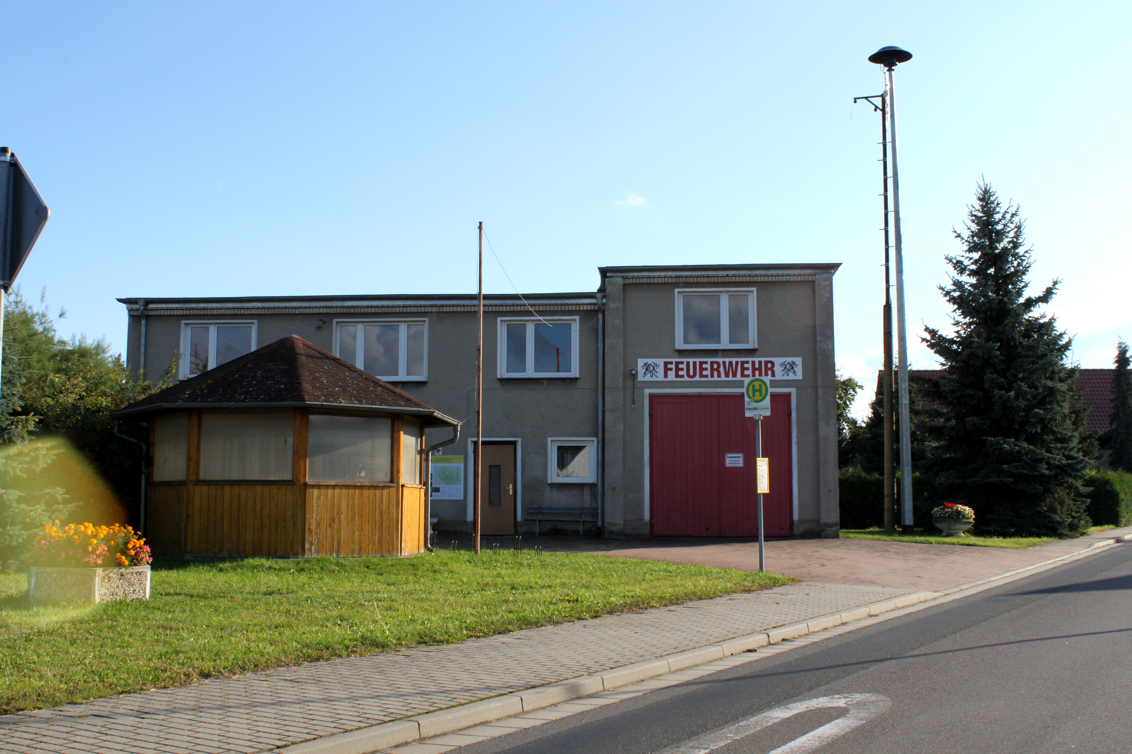 firefightertool-house